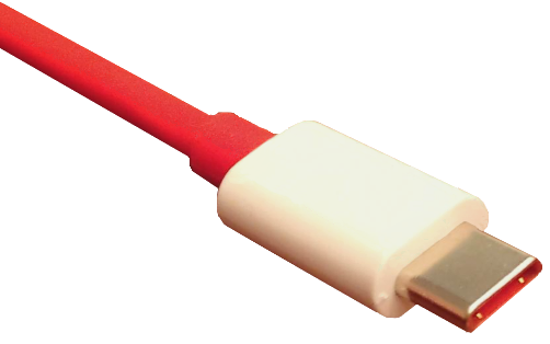 USB-C connector from the OnePlus Dash charger cable